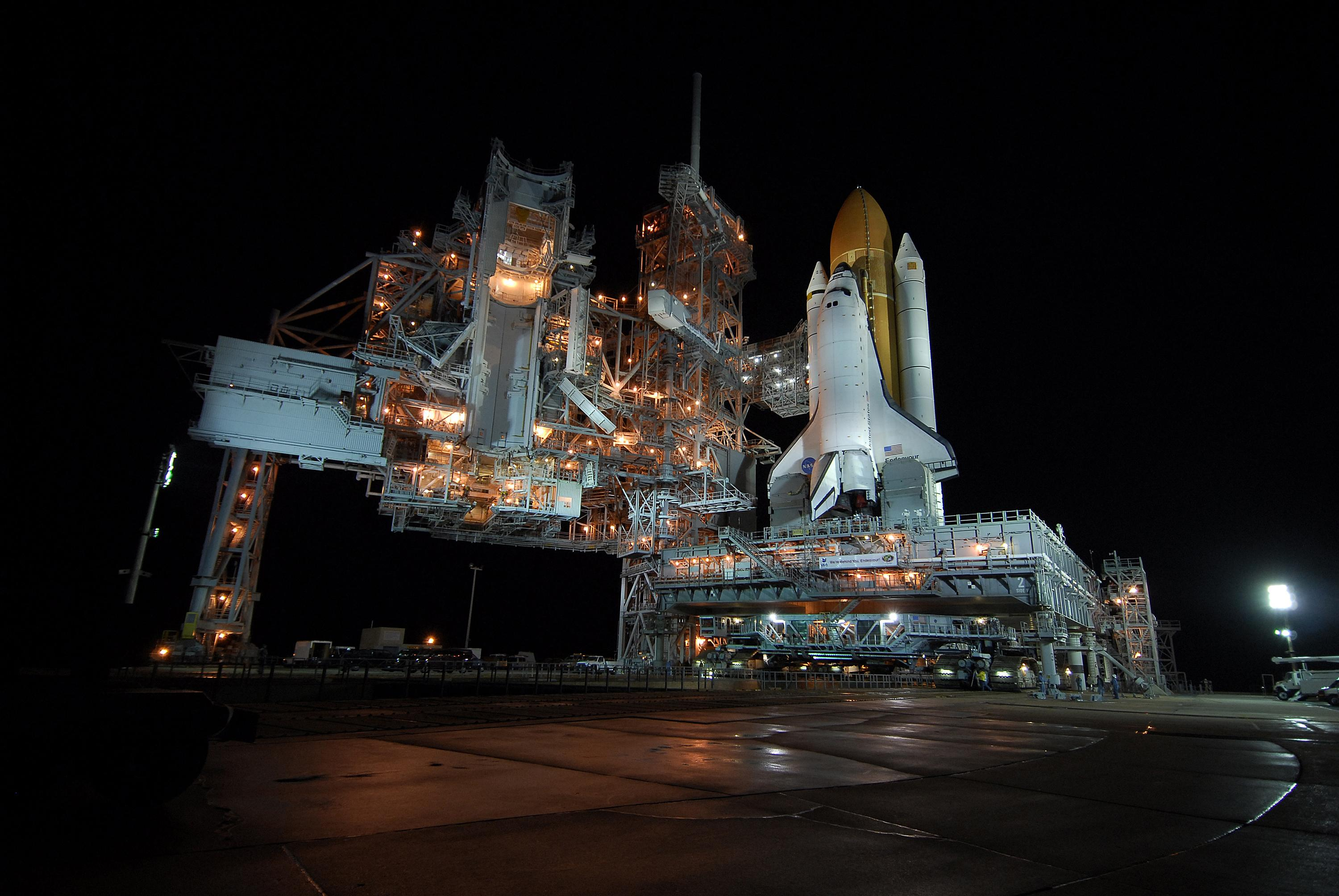 The mobile launcher platform with space shuttle Endeavour on top comes to rest on Launch Pad 39A. Prior to launch on the STS-123 mission, Endeavour will undergo three weeks of processing at the pad. At left is the rotating service structure which will pivot and close around the shuttle